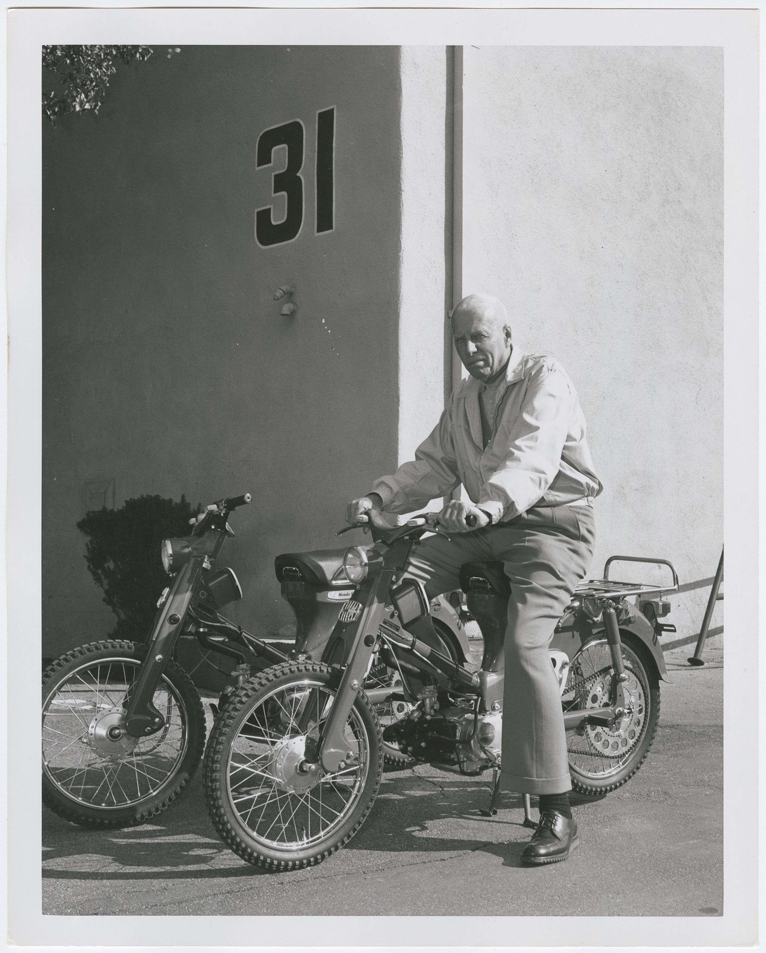 Howard Hawks on a motorcycle in 1963 or 1964.